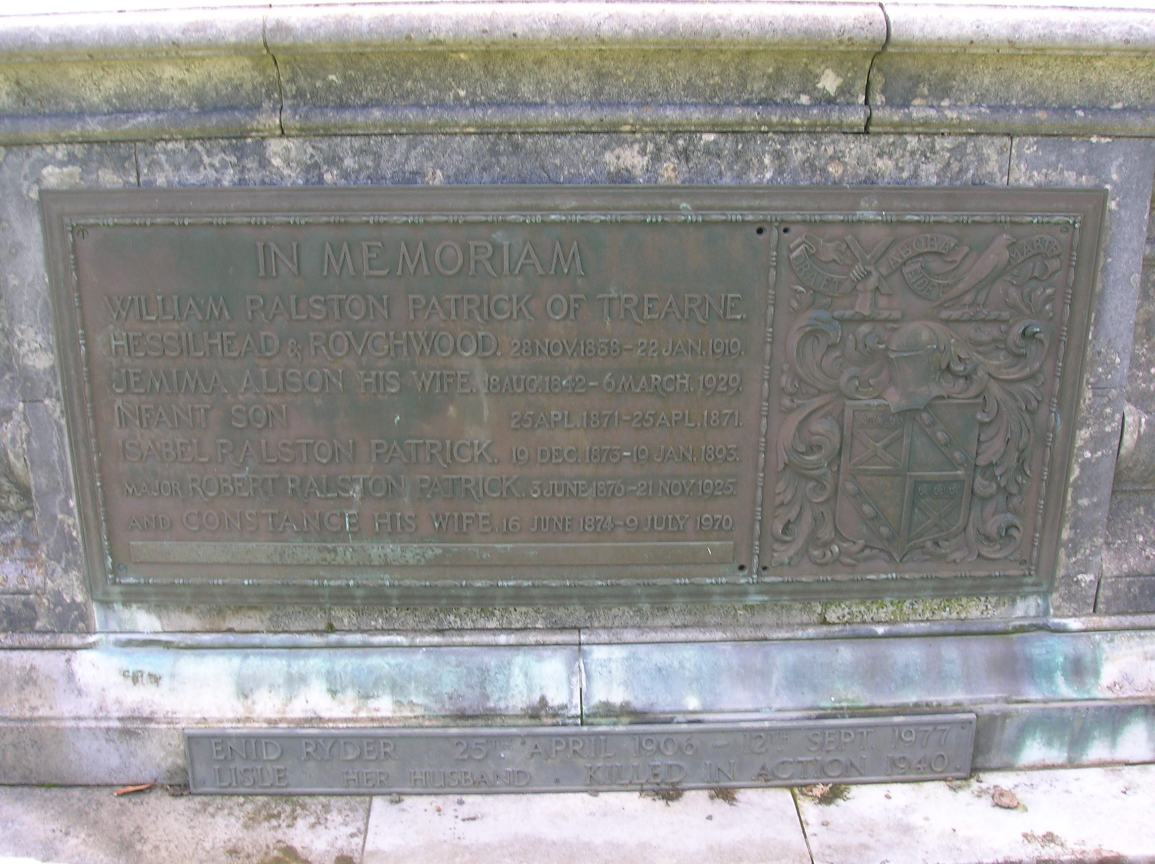 William Ralston Patrick of Trearne, Hessilhead and Roughwood. Beith Cemetery, North Ayrshire, Scotland